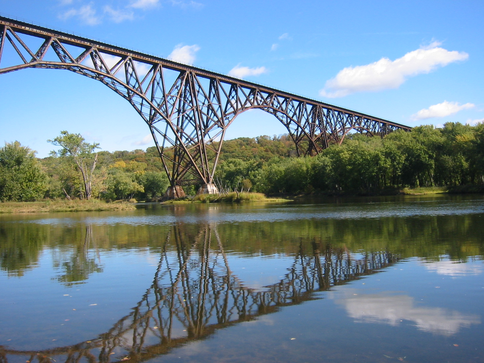 Soo Line High Bridge spanning the St. Croix River (Wisconsin-Minnesota) just north of Stillwater, Minnesota.